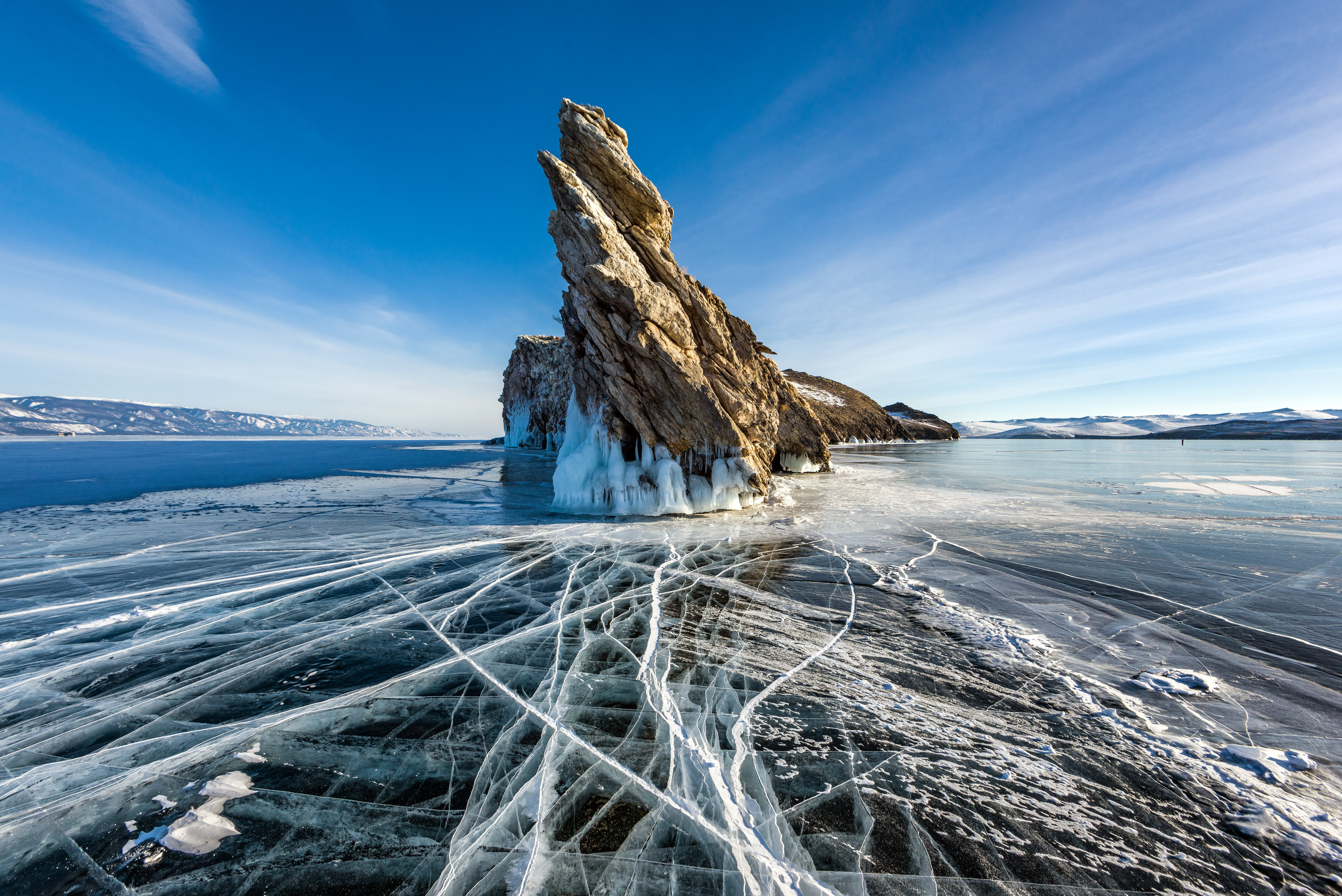 Ogoy Island in winter, Lake Baikal, Pribaikalsky National Park, Russia.